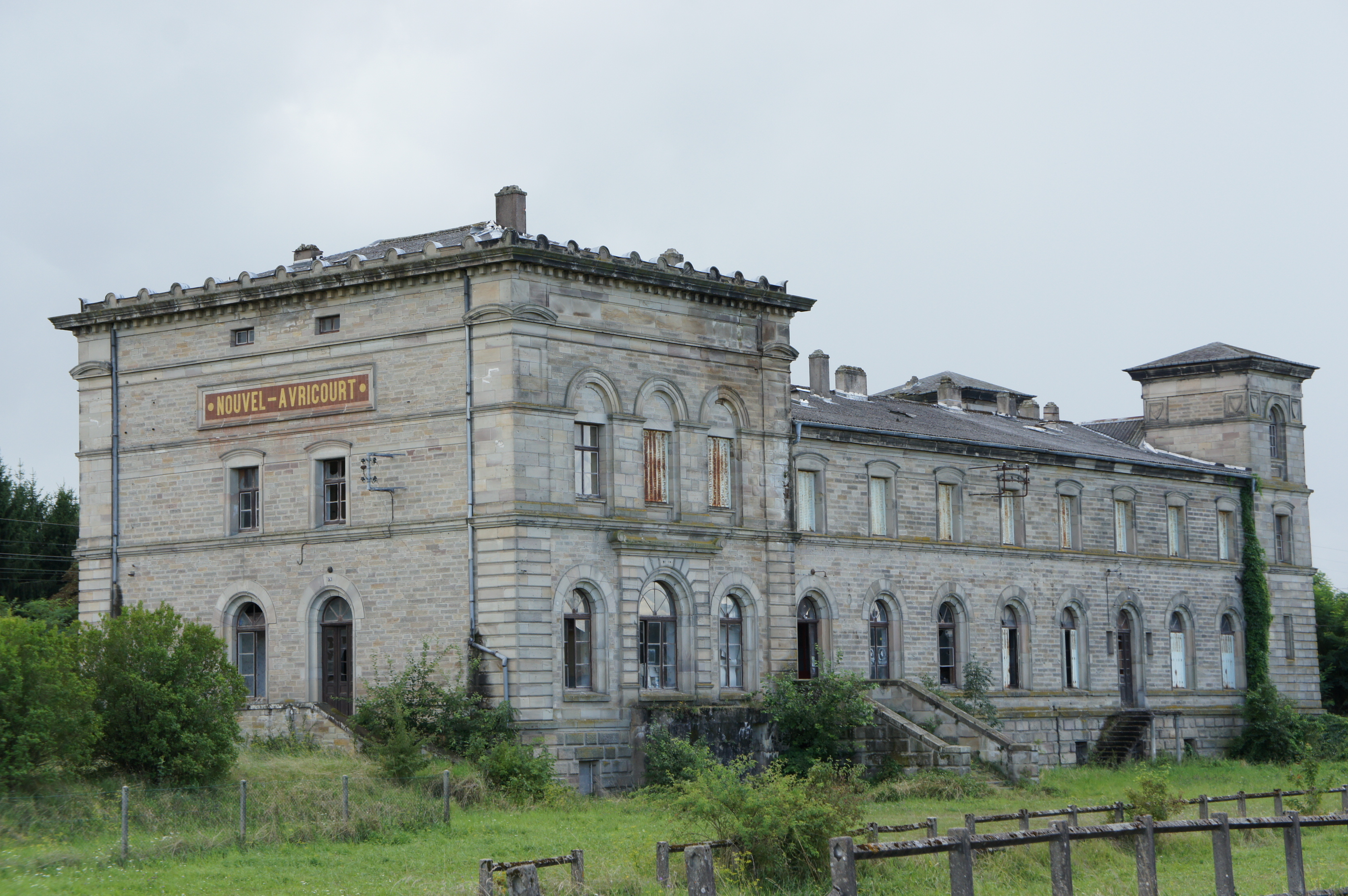 Avricourt 57, Nouvel-Avricourt train station